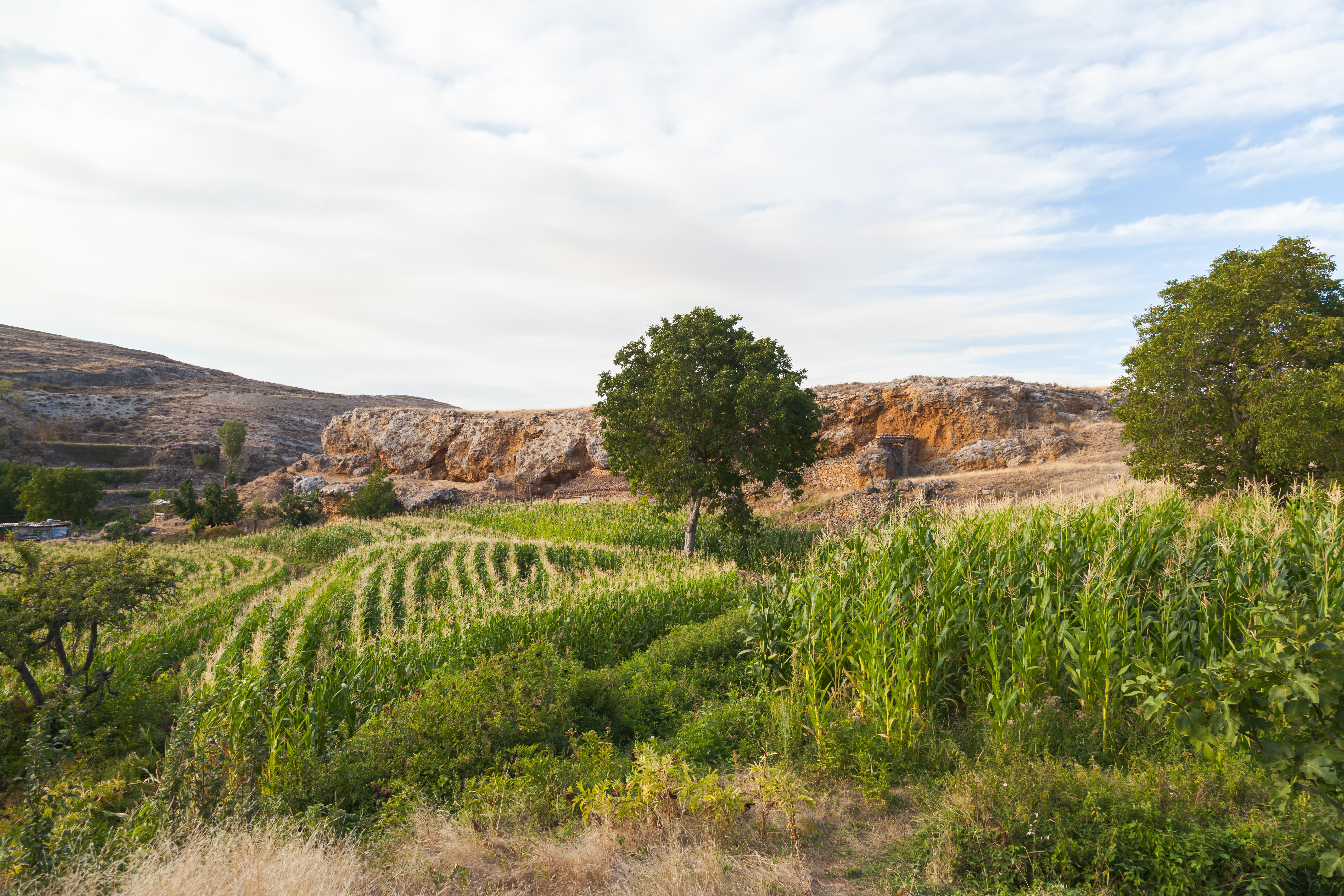 Moorish quarter, Ágreda, Spain